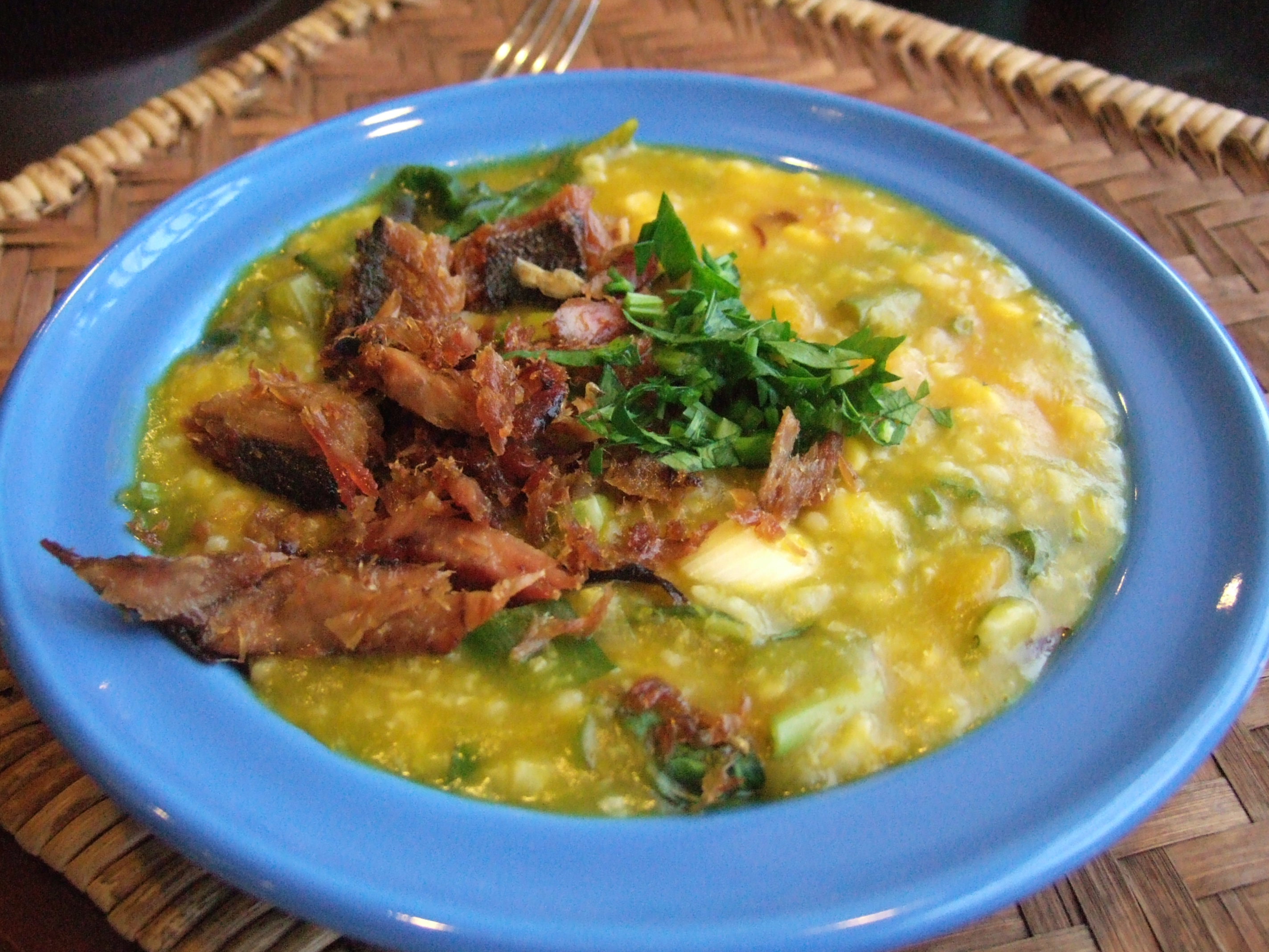 Tinutuan (vegetable rice porridge)